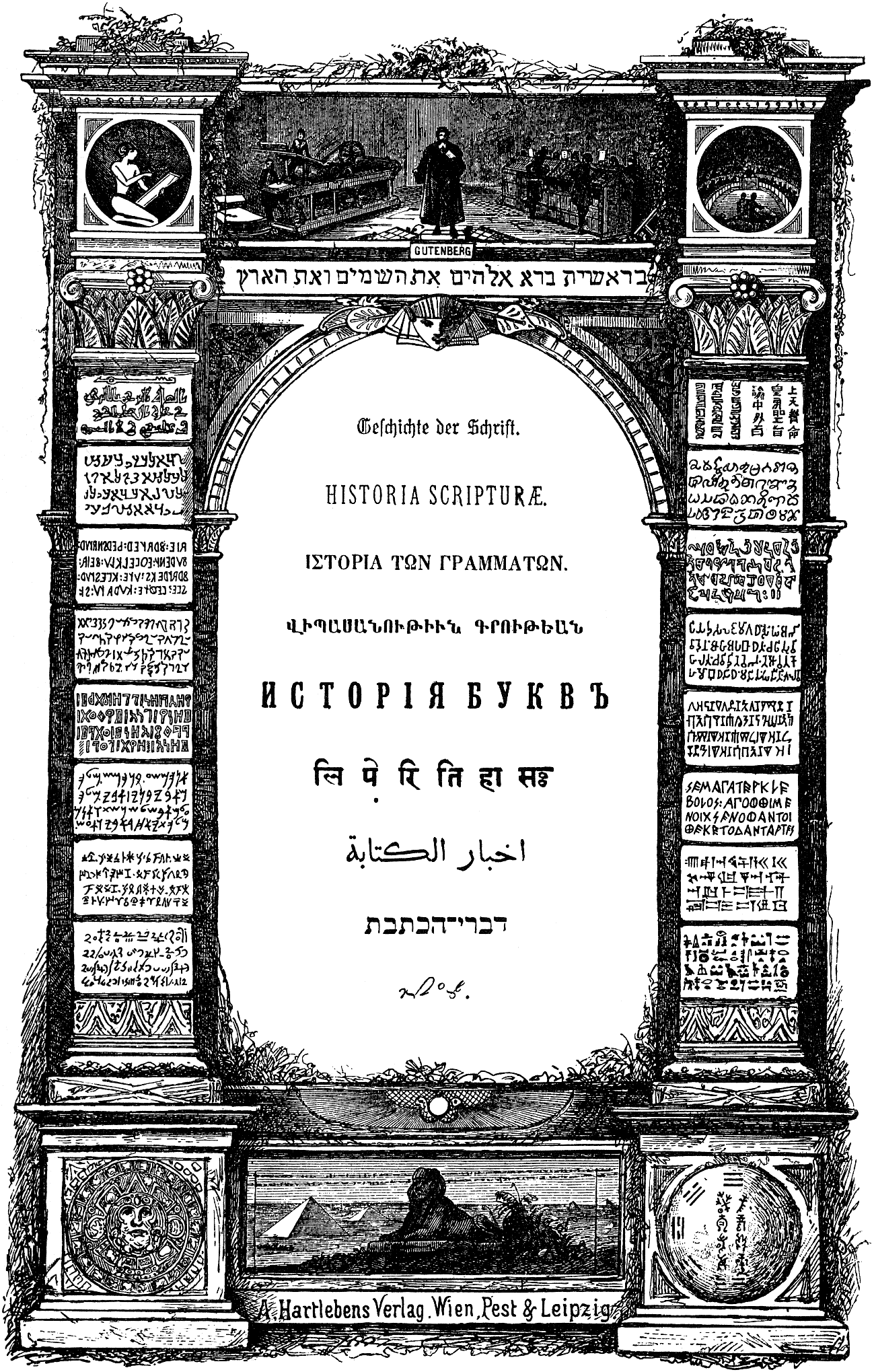 Frontispiece of Carl Faulmann, Illustrierte Geschichte der Schrift, Wien (Vienna) 1880. The image shows different scripting systems and alphabets, arranged to an allegoric memorial.